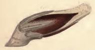 Stainton’s Natural History of the Tineina (1855–1873): Coleophora otidipennella larval case